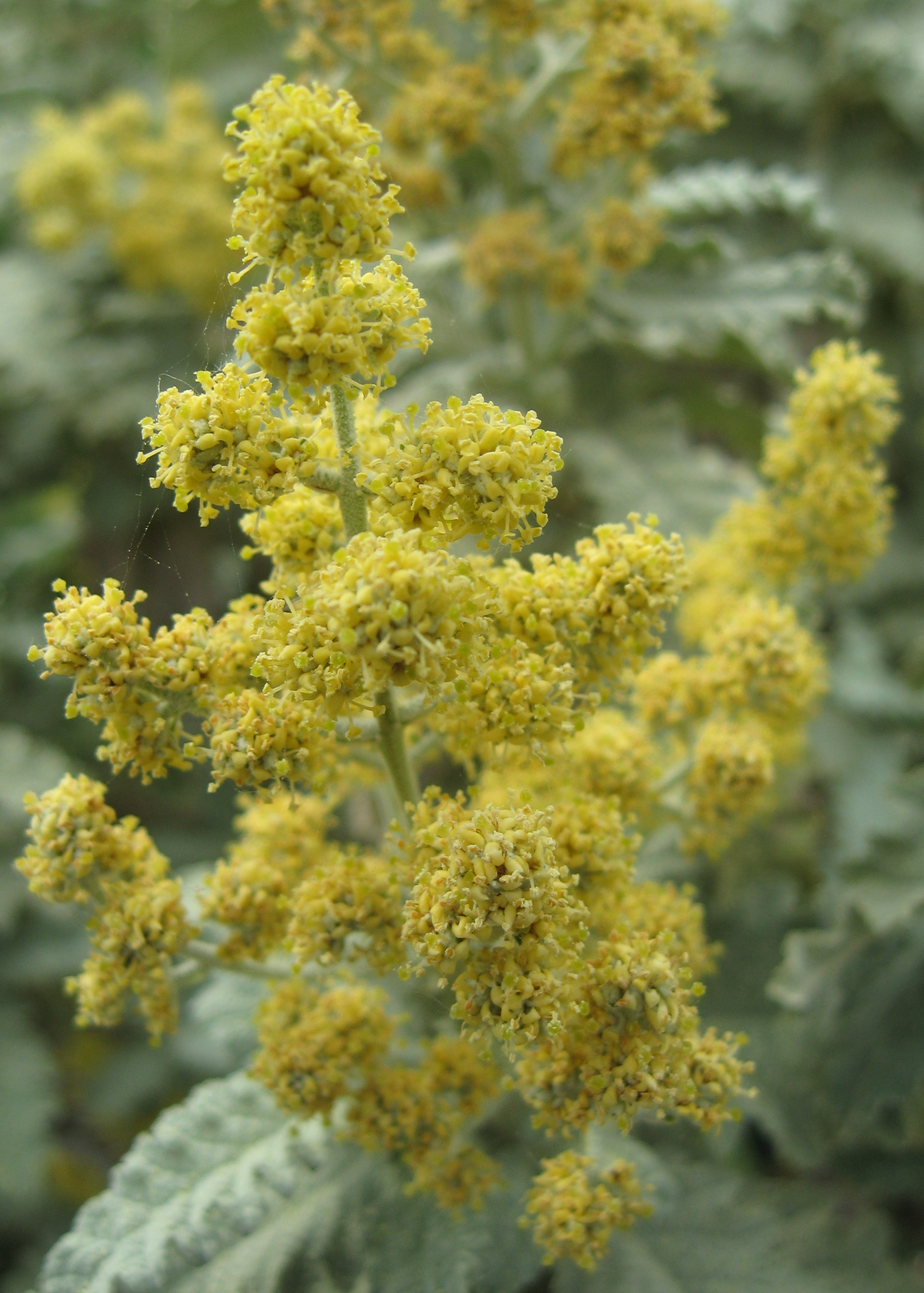 Photograph of the flowers of Buddleja glomerata.